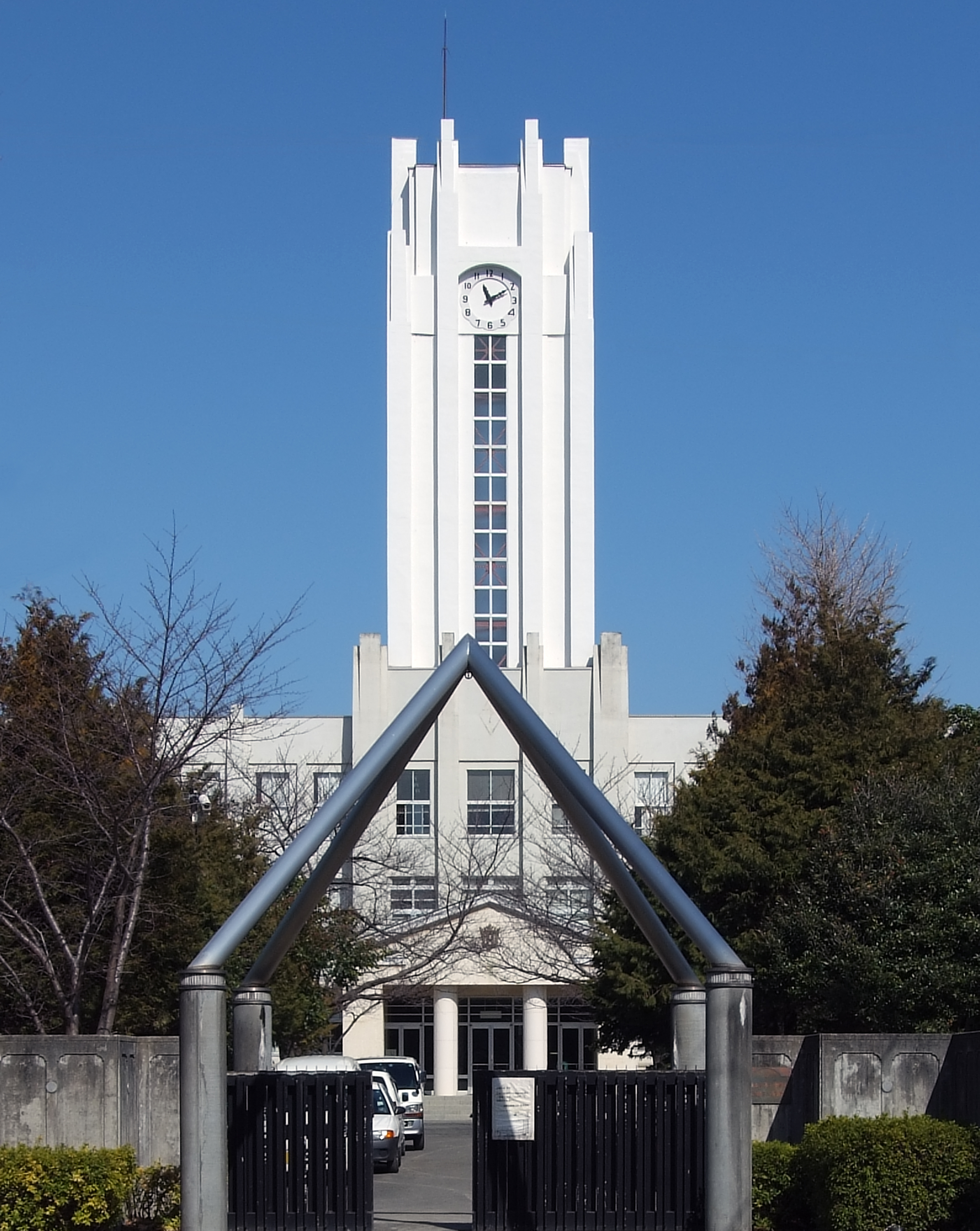 HOSEI Univ. DAINI Junior High School & Senior High School, at Nakahara-ku Kawasaki Japan.